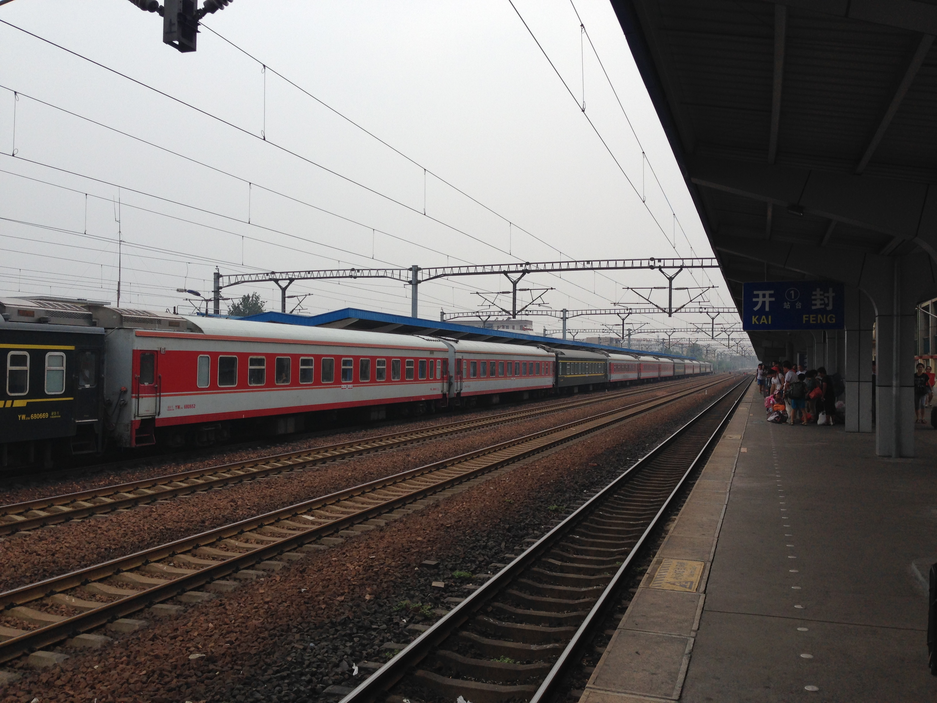 The K30 train from Fuzhou to Luoyang at Kaifeng Station